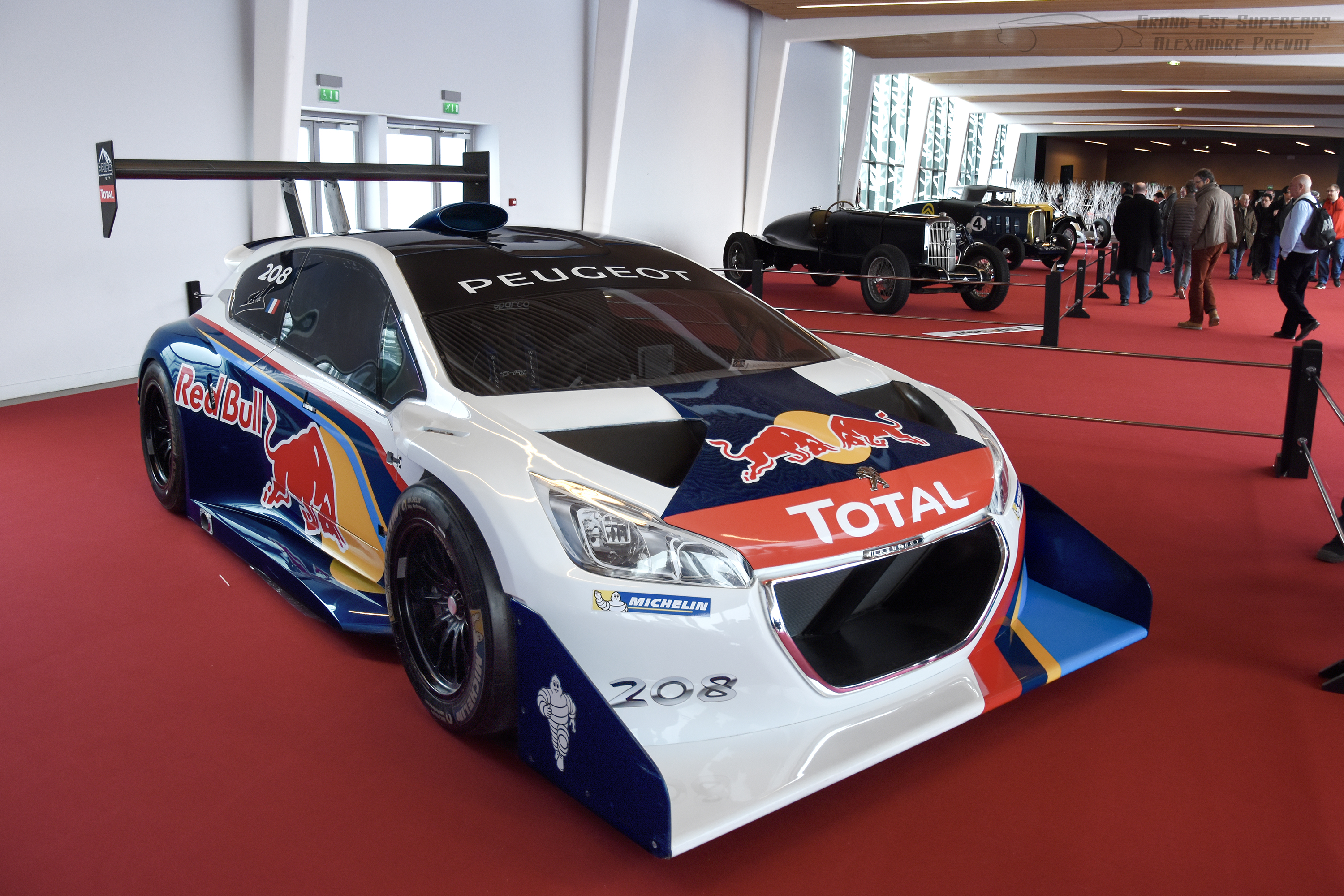 Rétromobile, an annual classic auto show held in February in the French city of Paris.